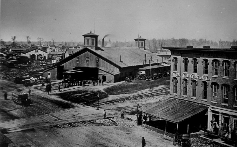 The first Union Station in Columbus, Ohio around 1864